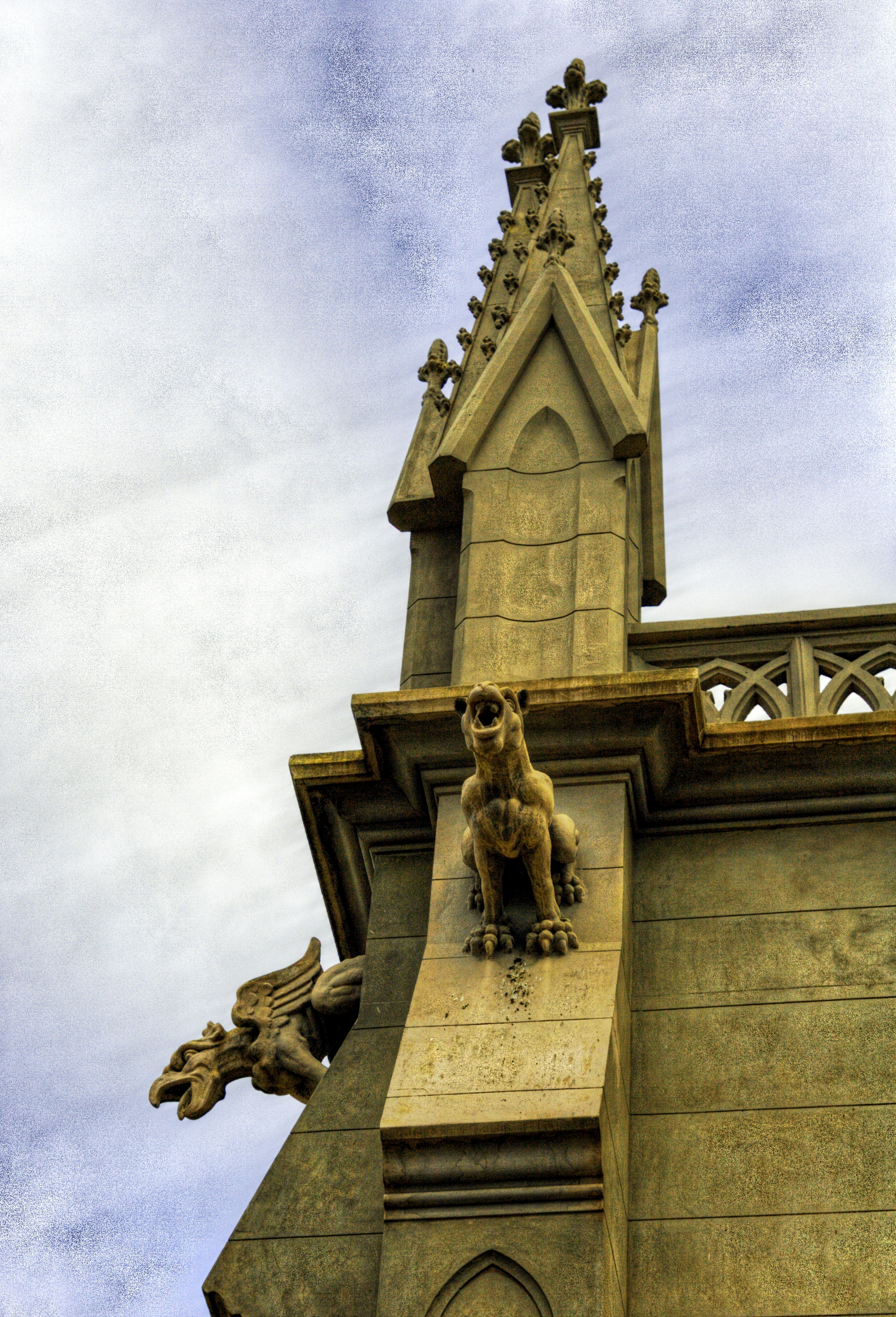 The St. Patrick's Church of Mercedes, in Buenos Aires Province. The photo focuses on the gargoyles that decorate its towers.